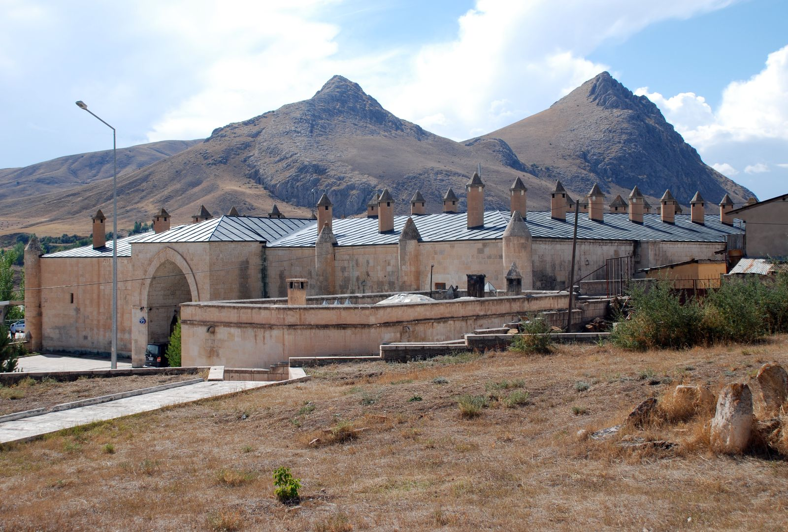 Tercan, Turkey, caravanserai, Mama Hatun Hanı